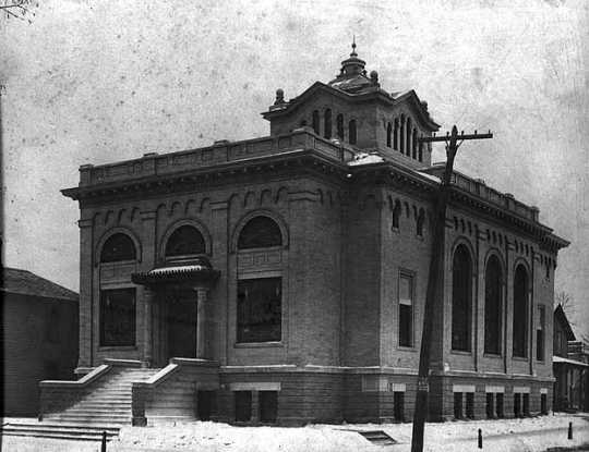 Description from MNopedia: Photograph of the third building used by Temple Israel in Minneapolis taken c.1916. The building stood at the corner of Tenth Street and Fifth Avenue. It was built on the same site as the previous Temple Israel building, which was made of wood and burned to the ground in a fire in 1902. The new stone structure pictured was completed the next year, in 1903. This would serve as Temple Israel's home until the dedication of a fourth building in 1928.